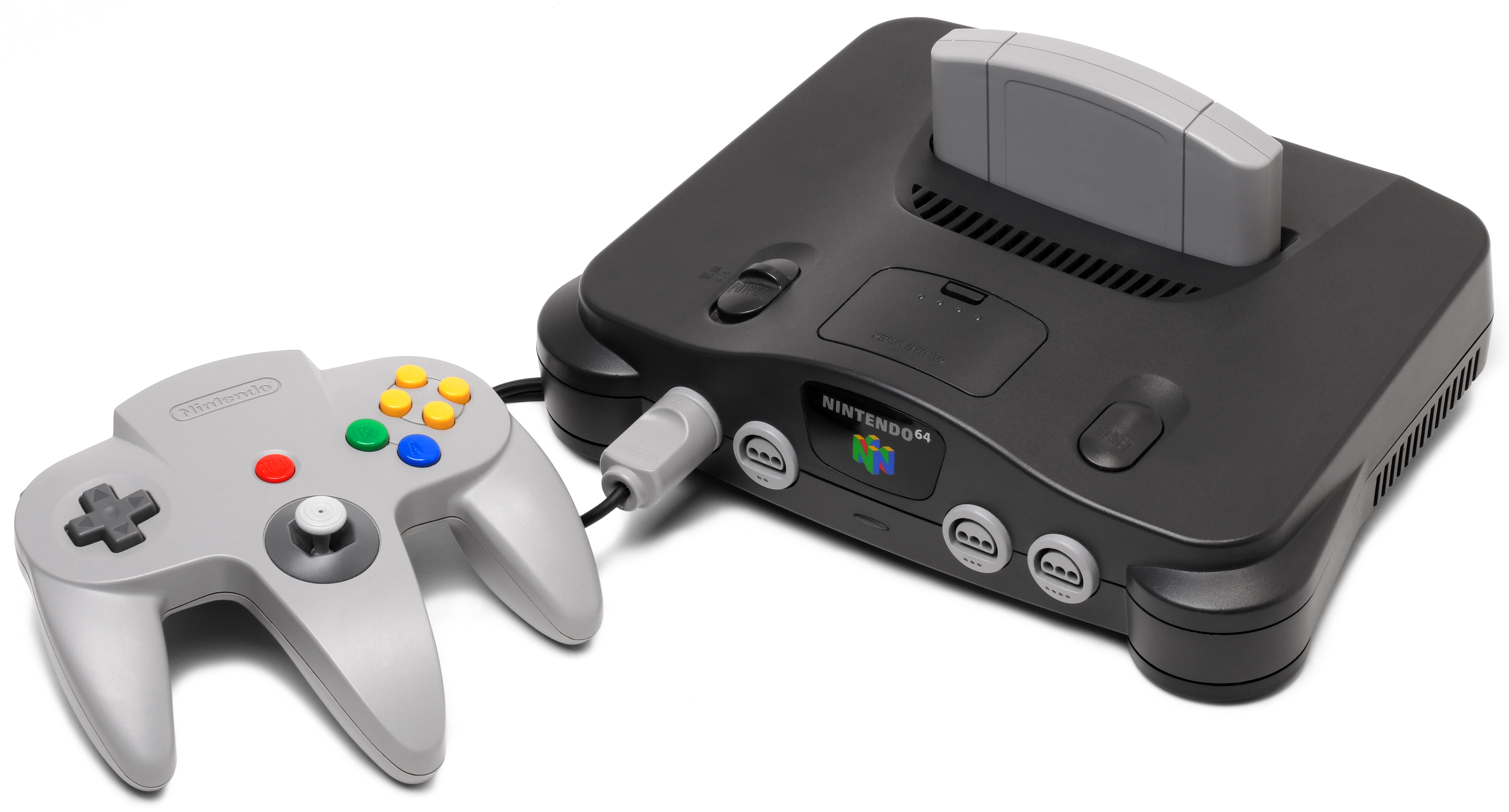 A Nintendo 64 video game console shown with gray controller. This is the JPG version.